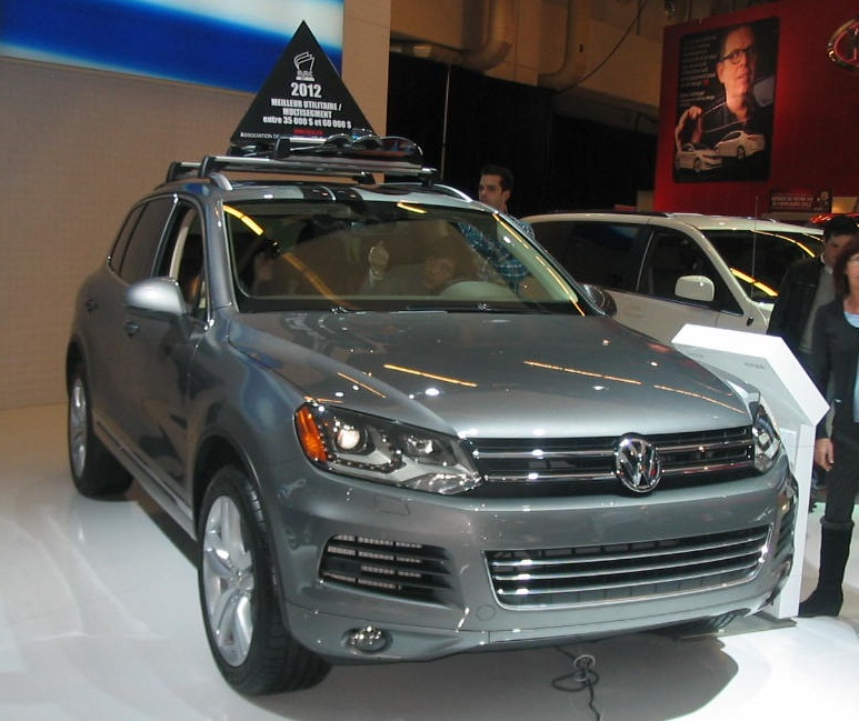 2012 Volkswagen Touareg photographed in Montreal, Quebec, Canada at the 2012 Montreal International Auto Show.